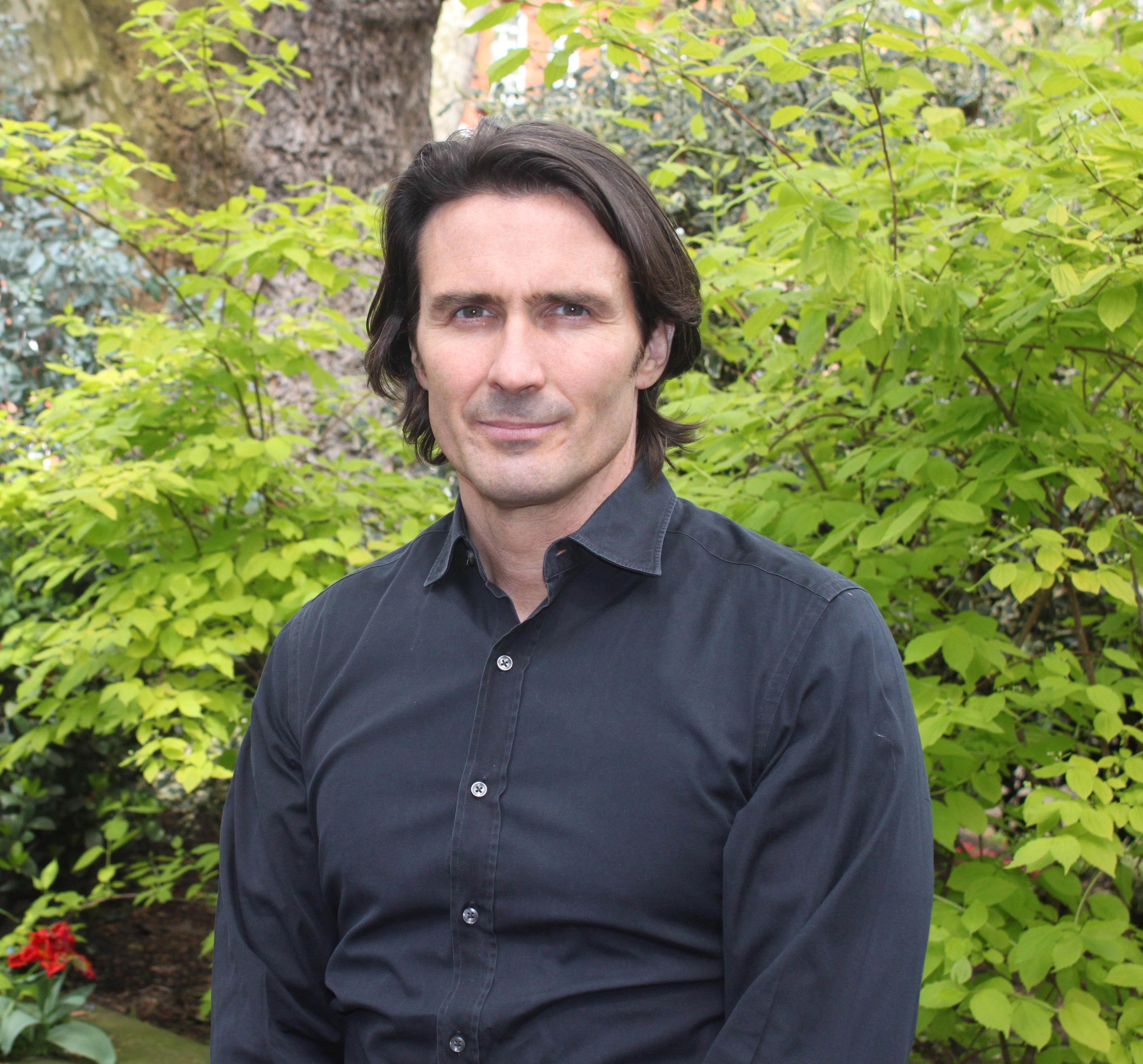 Niall Dunne in London garden, 2018